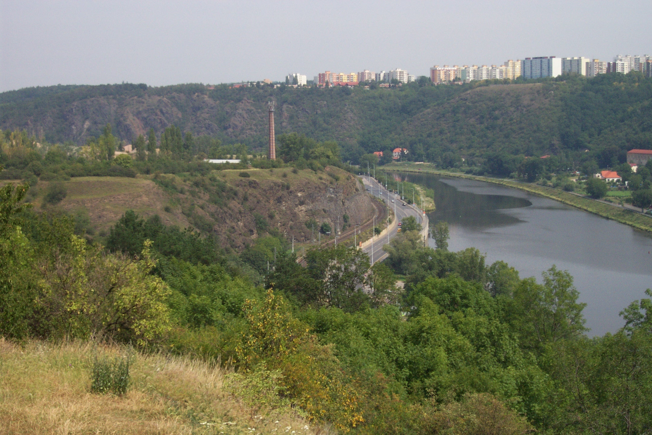 A wiev on street to Suchdol and natural reservation Podhoří from Babahelp